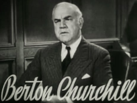 Berton Churchill in the film Vagabond Lady (1935) - trailer (cropped screenshot)